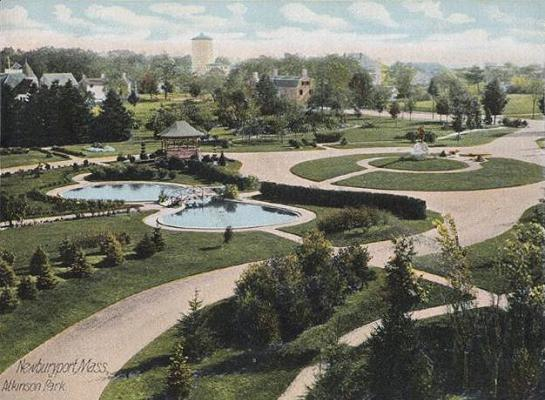 Atkinson Common, Newburyport, MA; from a 1908 postcard.